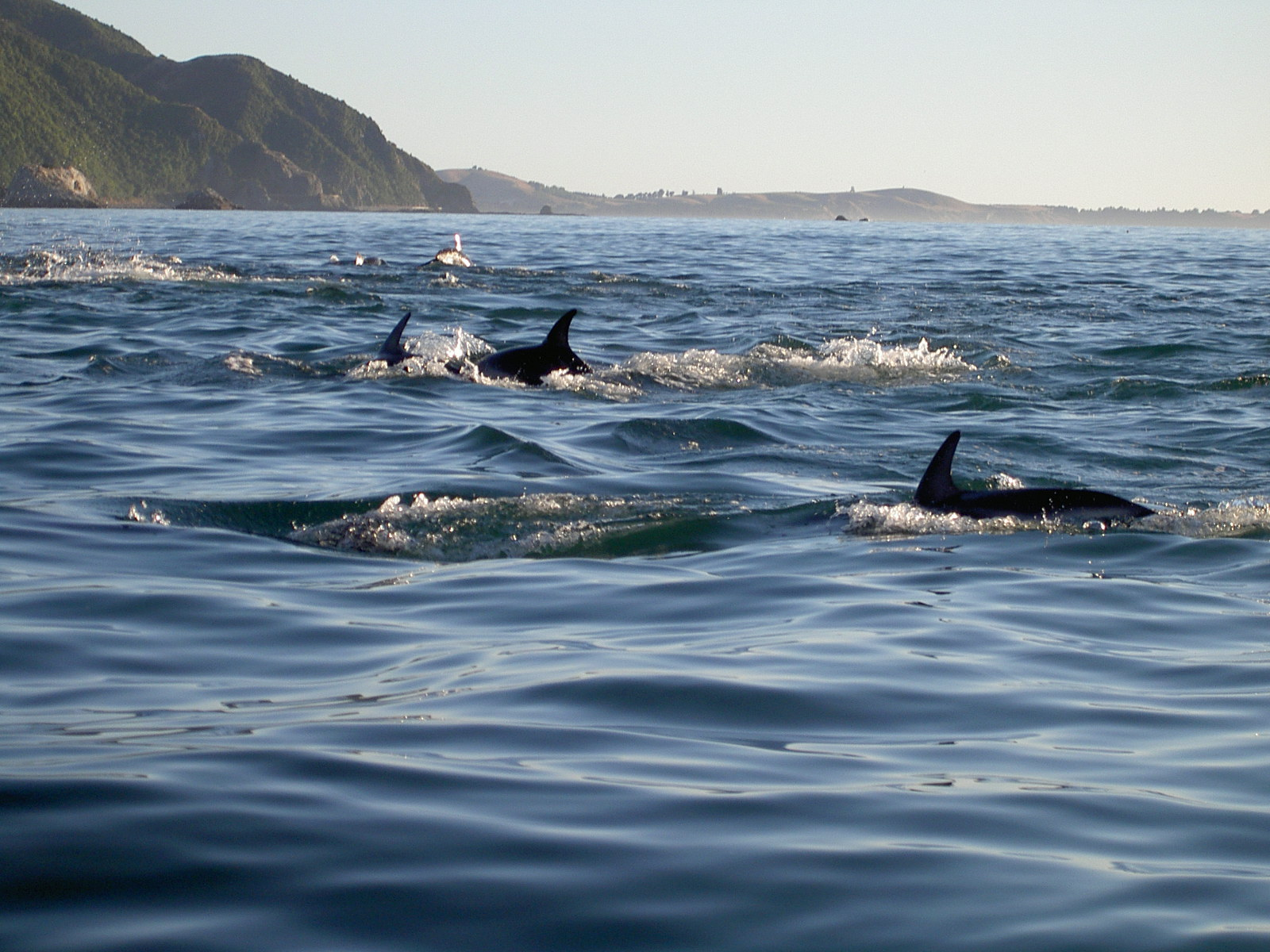 Dusky Dolphins. Mit diesen suessen Delphinen bin ich um die Wette geschwommen.